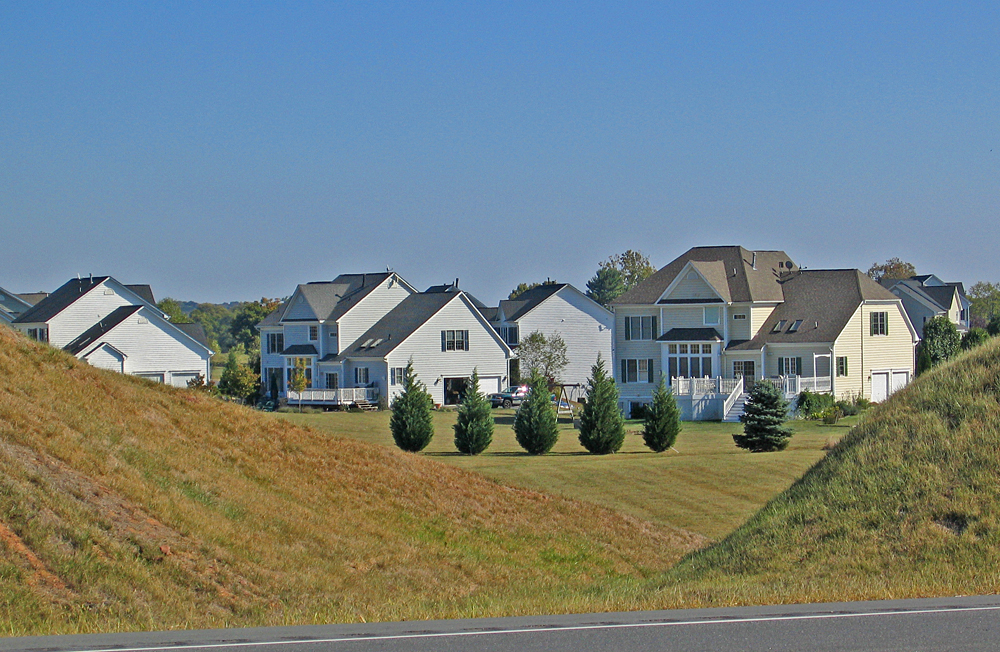 McMansion subdivision consuming farmland in Leesburg This work is licensed under a Creative Commons Attribution 3.0 United States License